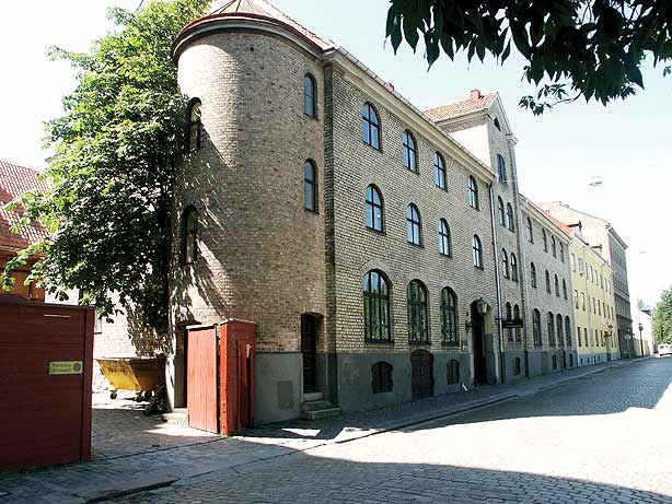 The old buildings in the block of "St Gertrud" in Malmo, Sweden.